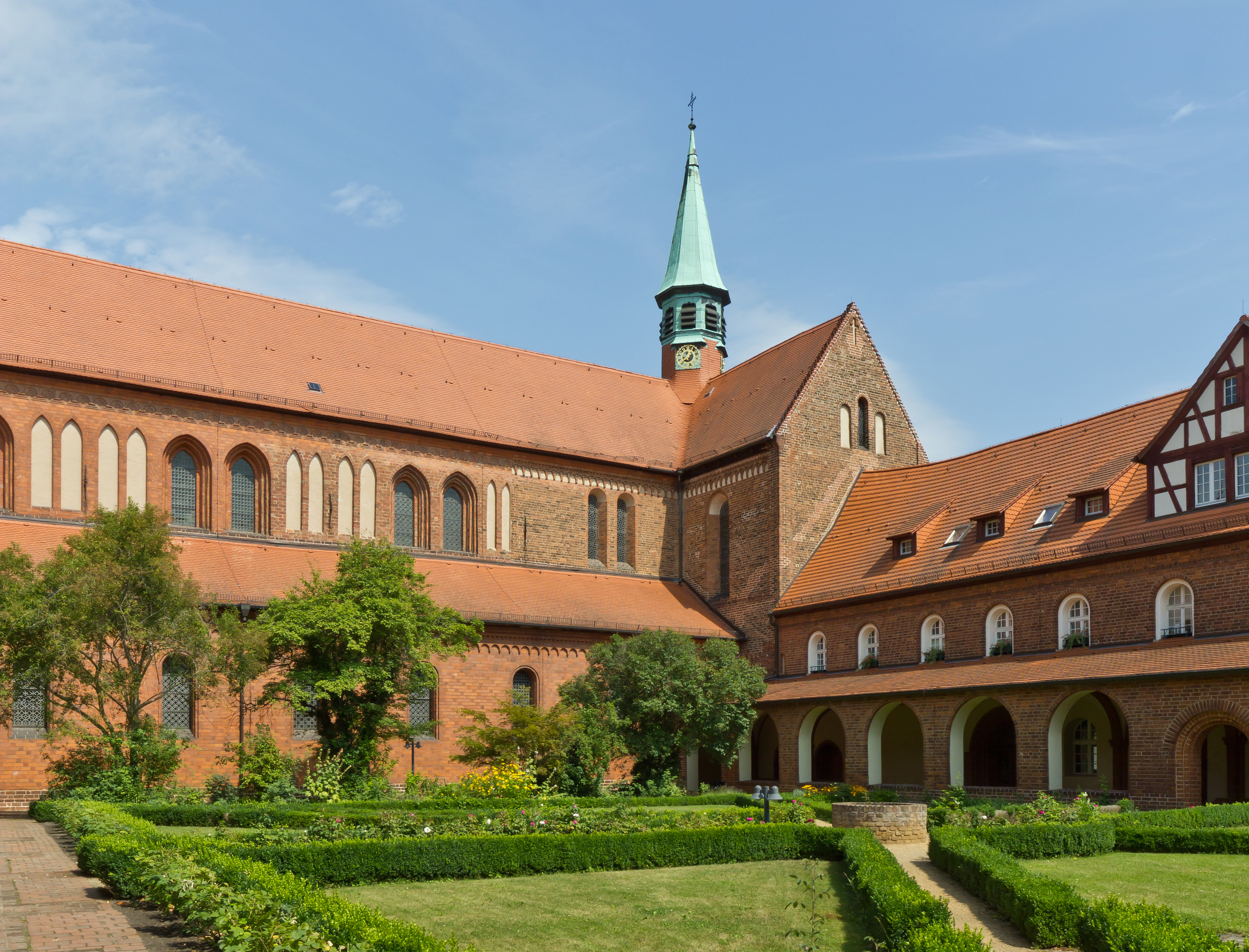 Cloister garden courtyard and St. Marien church (rear) of the Kloster Lehnin (Lehnin abbey, a German Brick Gothic era monastery near Brandenburg/Havel, in Landkreis Potsdam-Mittelmark, Brandenburg).